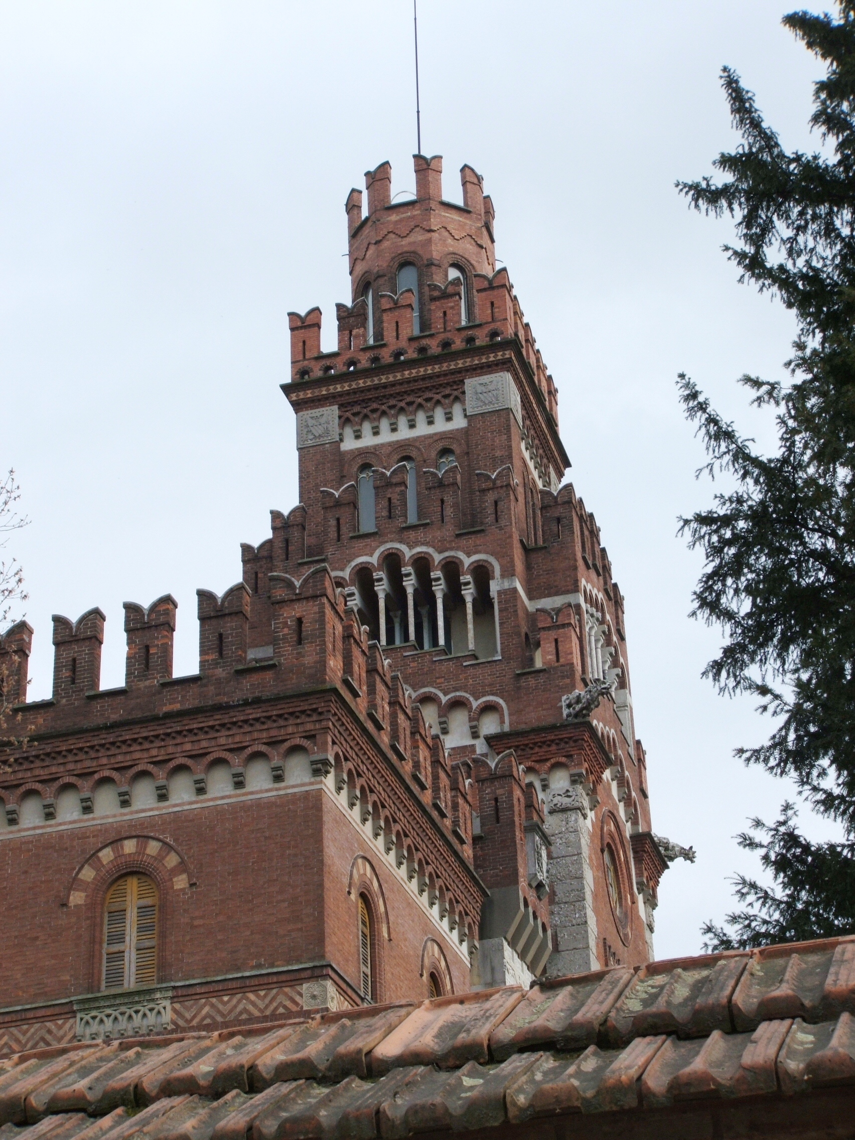 Crespi d'Adda - Bergamo - Italy, particular of castle built in 1893-94. Draw by architect Ernesto Pirovano (1866-1934).